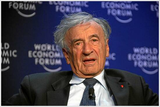 DAVOS/SWITZERLAND, 27JAN08 - Elie Wiesel captured during the session 'Message from Davos: Believing in the Future' at the Annual Meeting 2008 of the World Economic Forum in Davos, Switzerland, January 27, 2008. Copyright World Economic Forum ( by Remy Steinegger